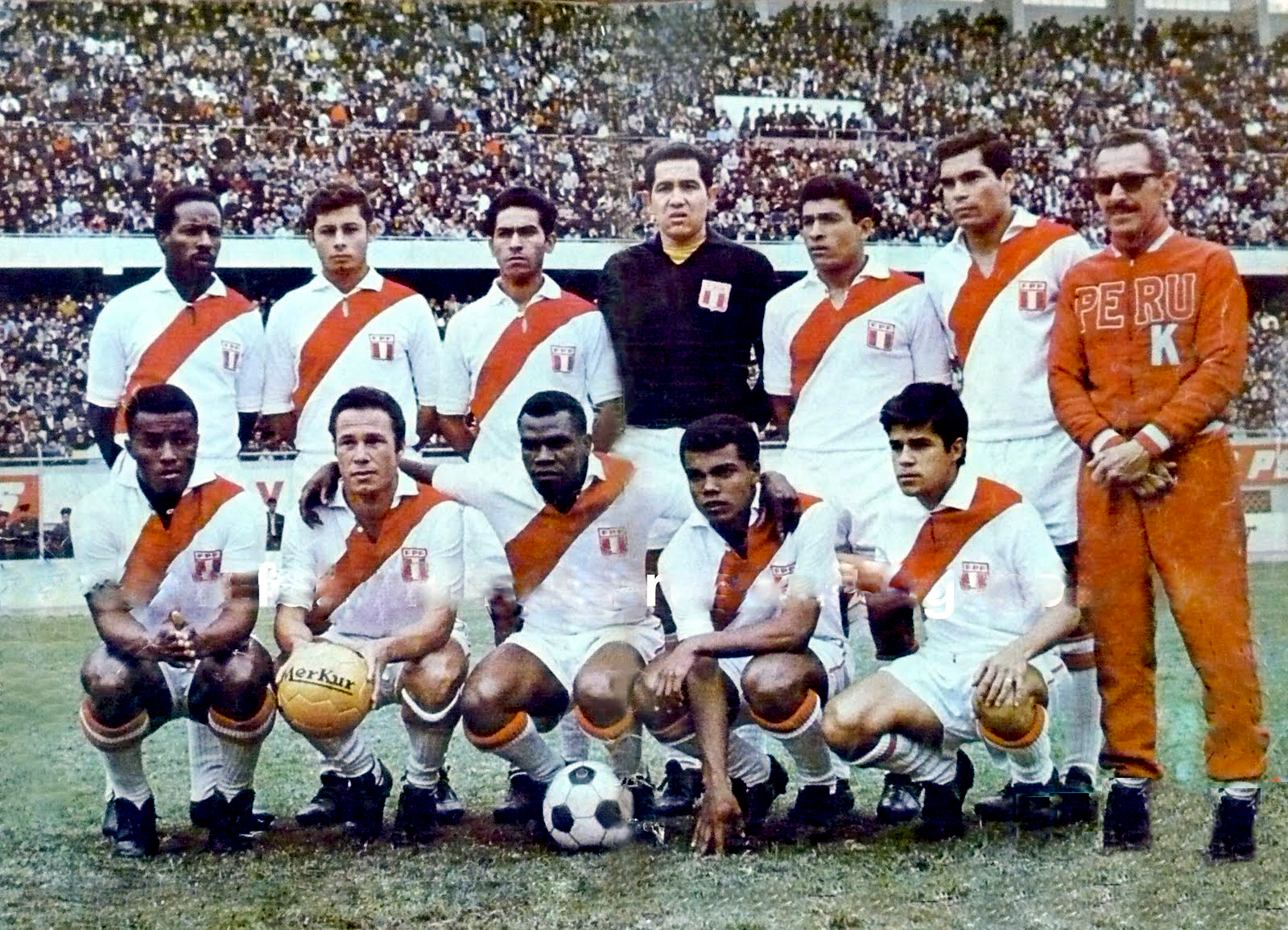 Peru national football team moments prior to a practice match against the Mexico national football team in 1968. Friendly match ahead of their participation in the 1970 FIFA World Cup, featuring players from the team that qualified them to the aforementioned tournament.